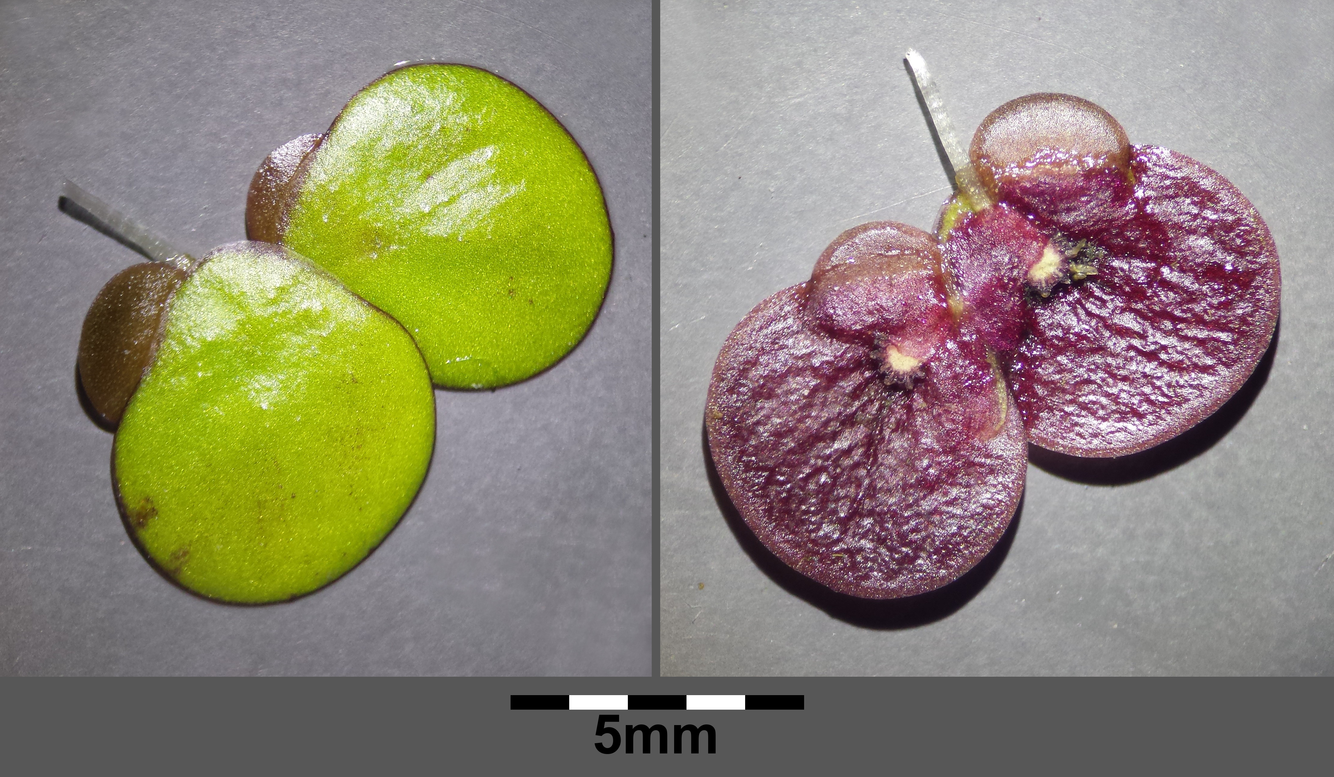 Fronds with turions, top and bottom view (roots removed) Taxonym: Spirodela polyrhiza ss Fischer et al. EfÖLS 2008 ISBN 978-3-85474-187-9 Location: natural monument Toter Grund, Neue Donau, Vienna-Donaustadt - ca. 150 m a.s.l. Habitat: back water